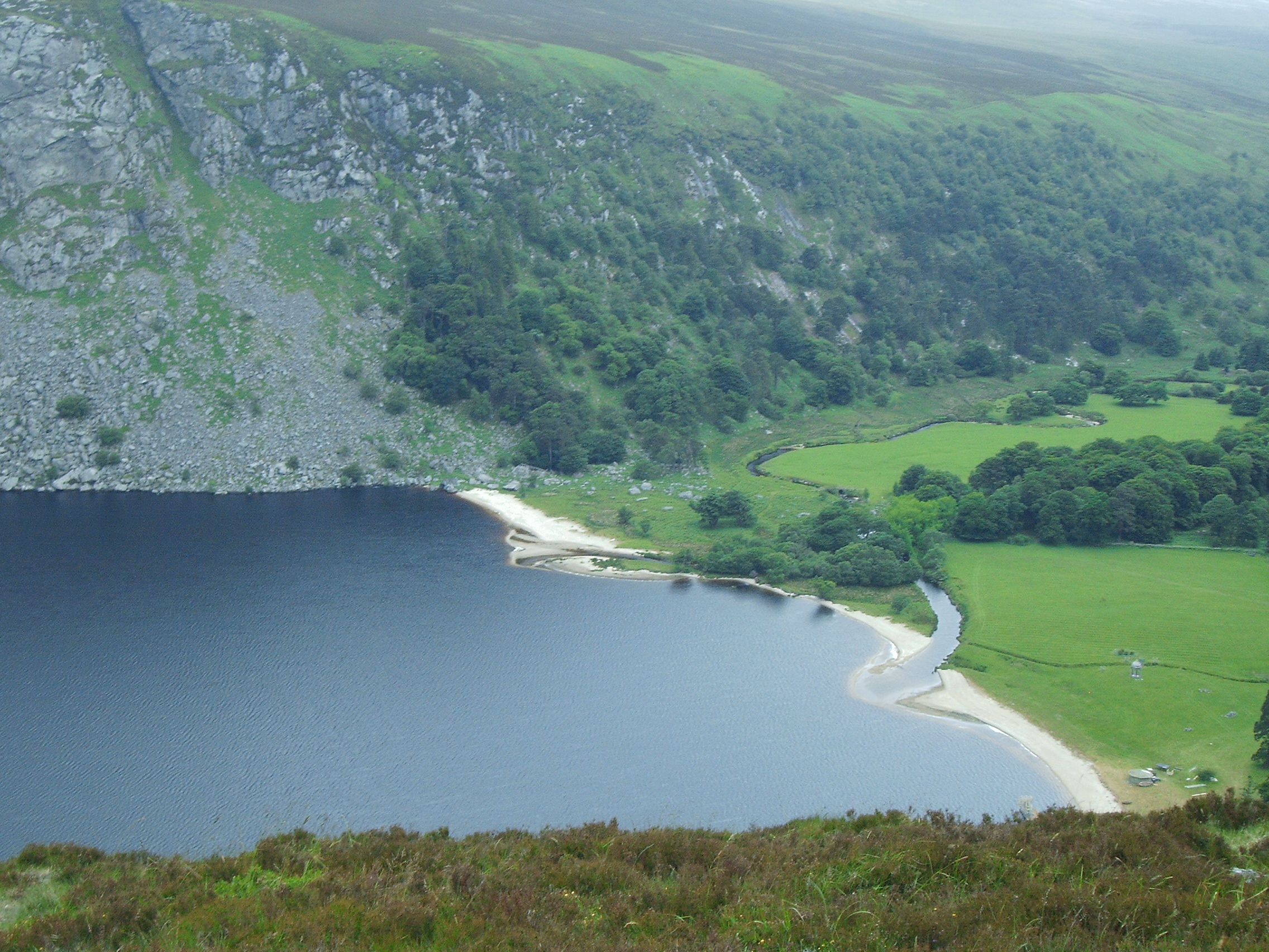 Lought Tay, Wicklow, Ireland